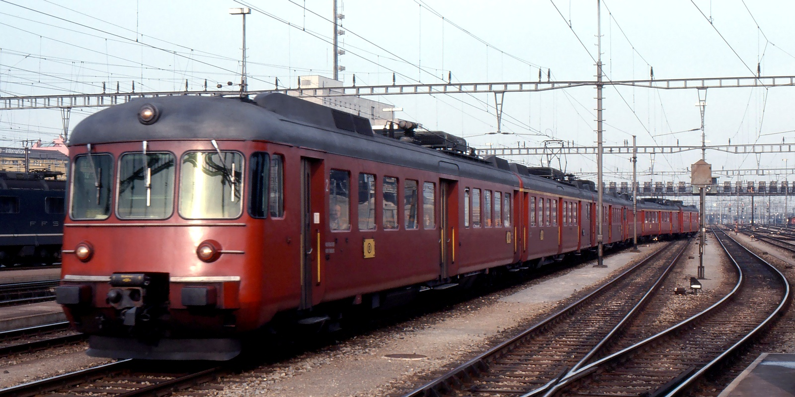 Swiss Rail RABDe 12/12 built 1966 2240 kW Nickname "Mirage"